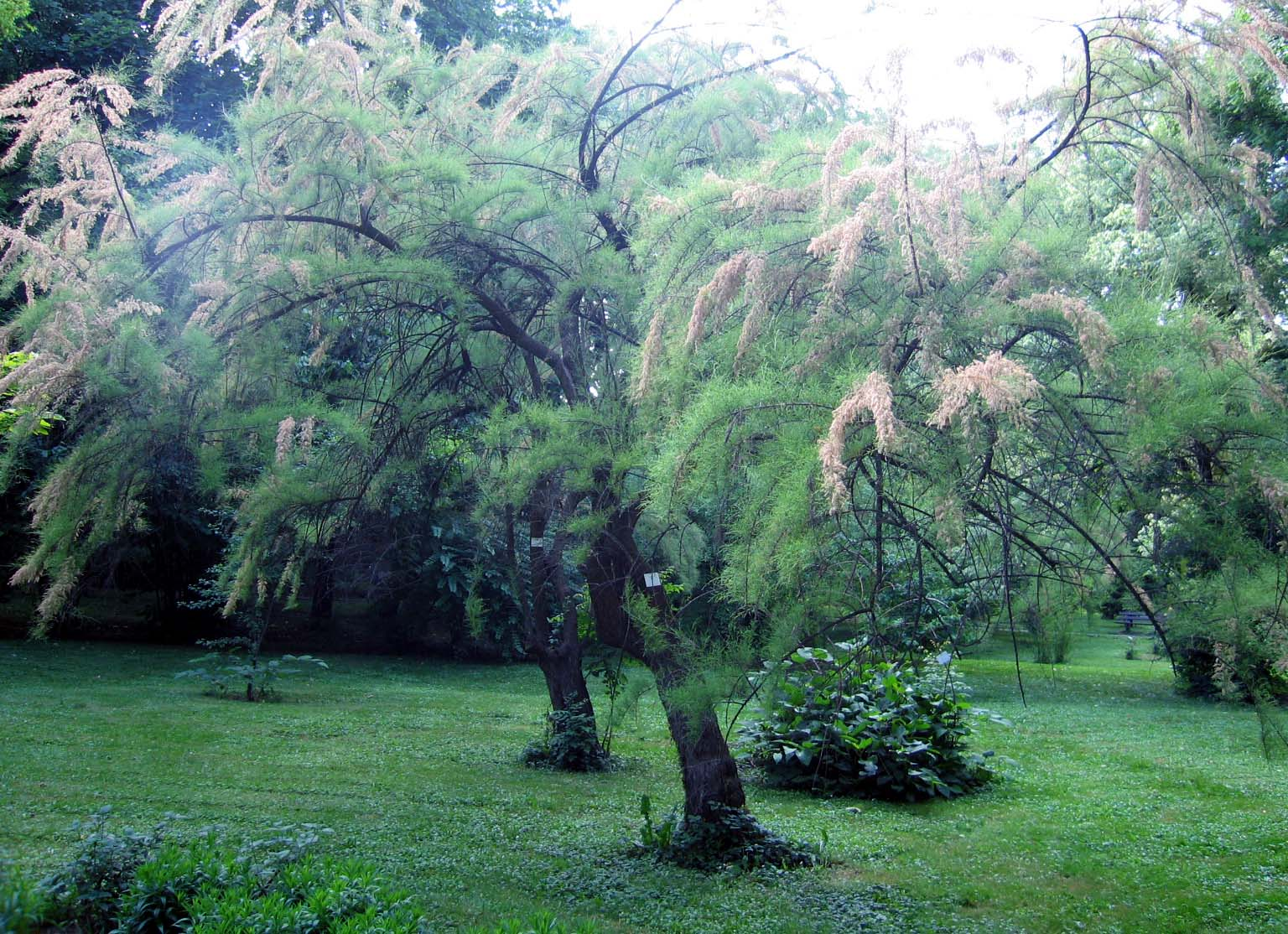 Jevremovac u Beogradu